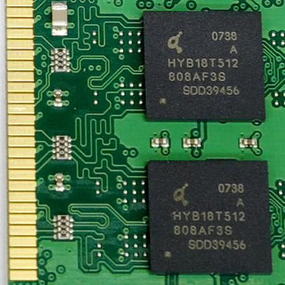 Close up of a DDR2 RAM module with winding wires on the printed circuit board to compensate signal delays